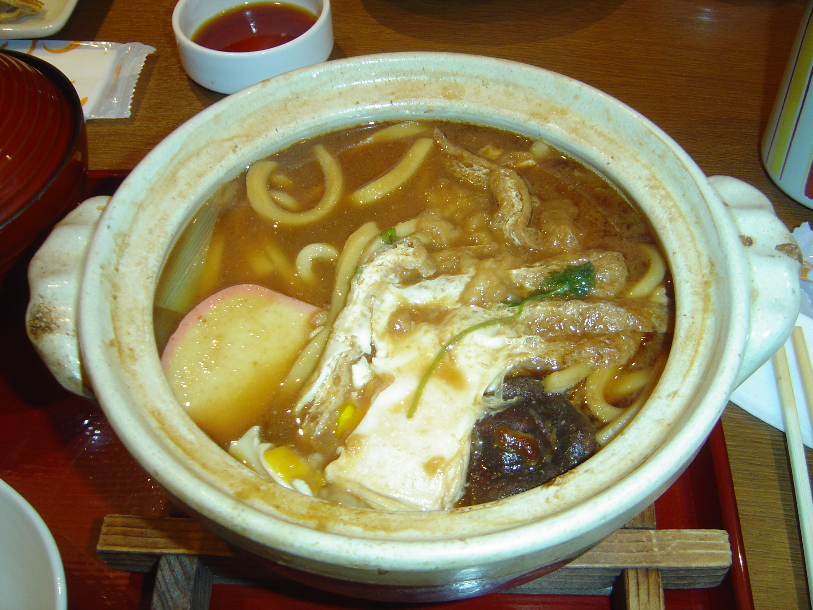 A bowl of Udon